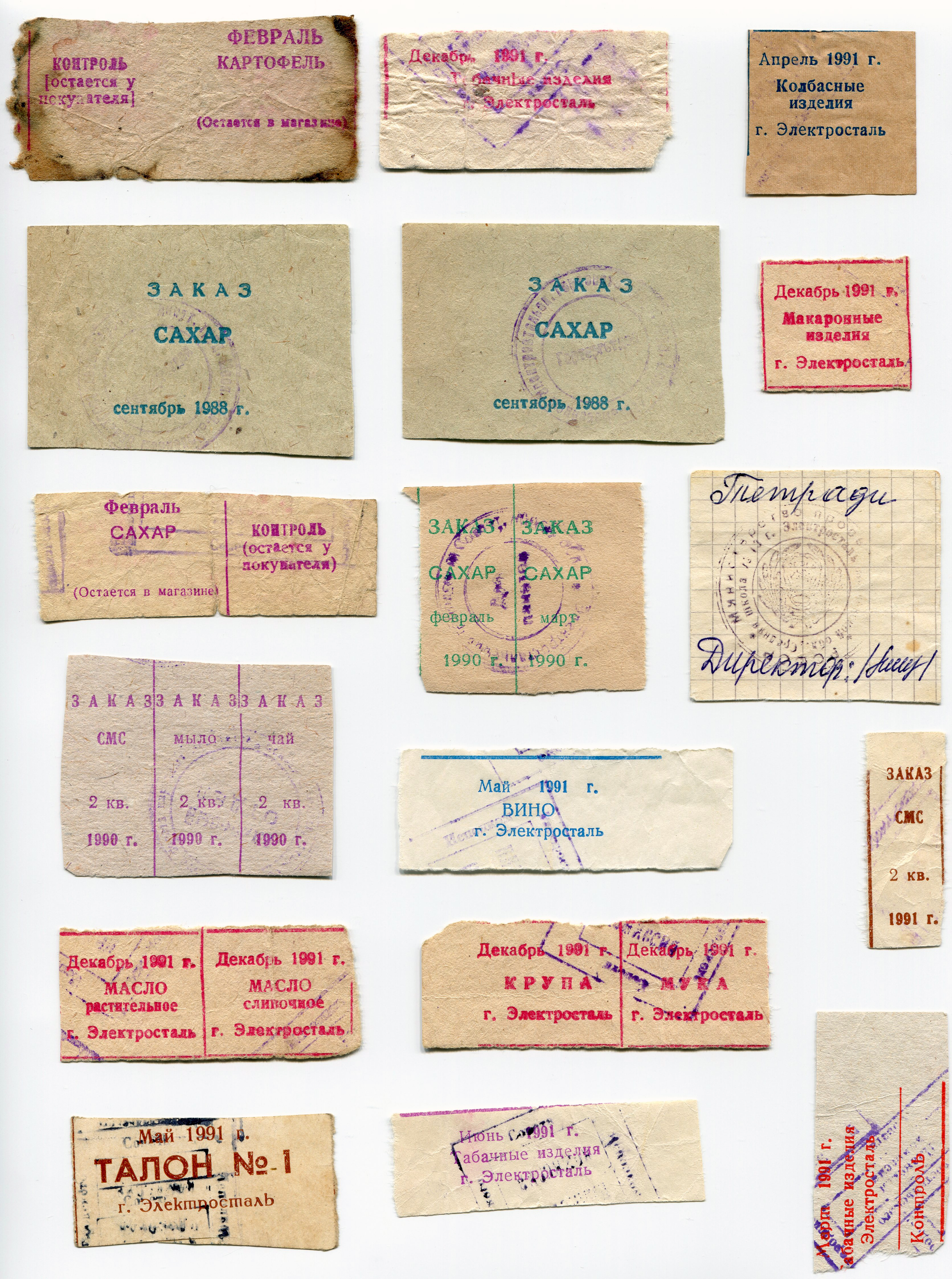 USSR, the city of Elektrostal. Coupons for goods and products.